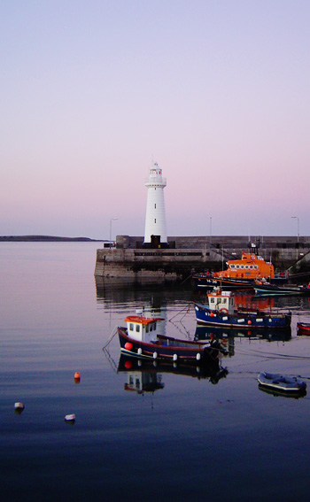 Donagahdee Harbour